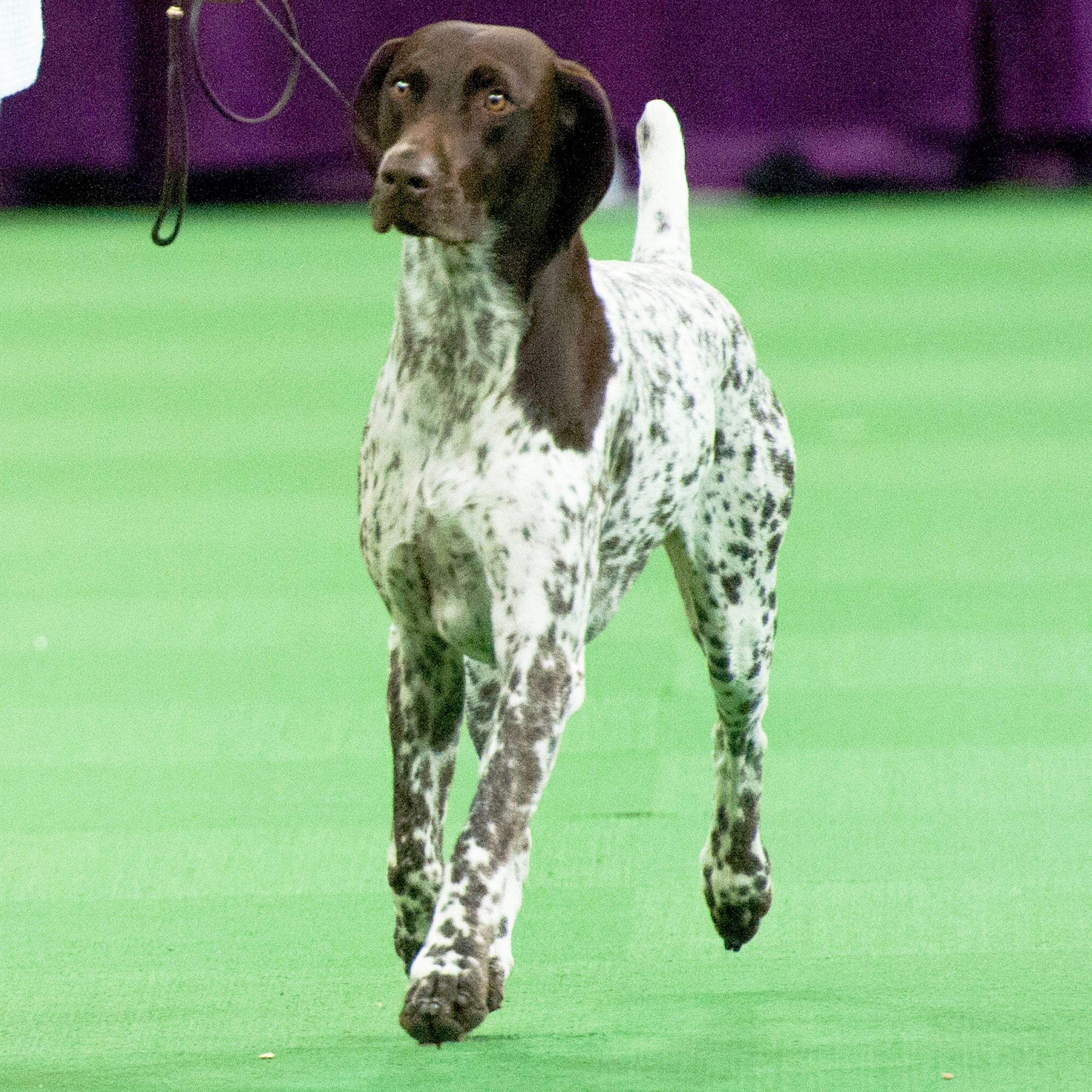 Best in show